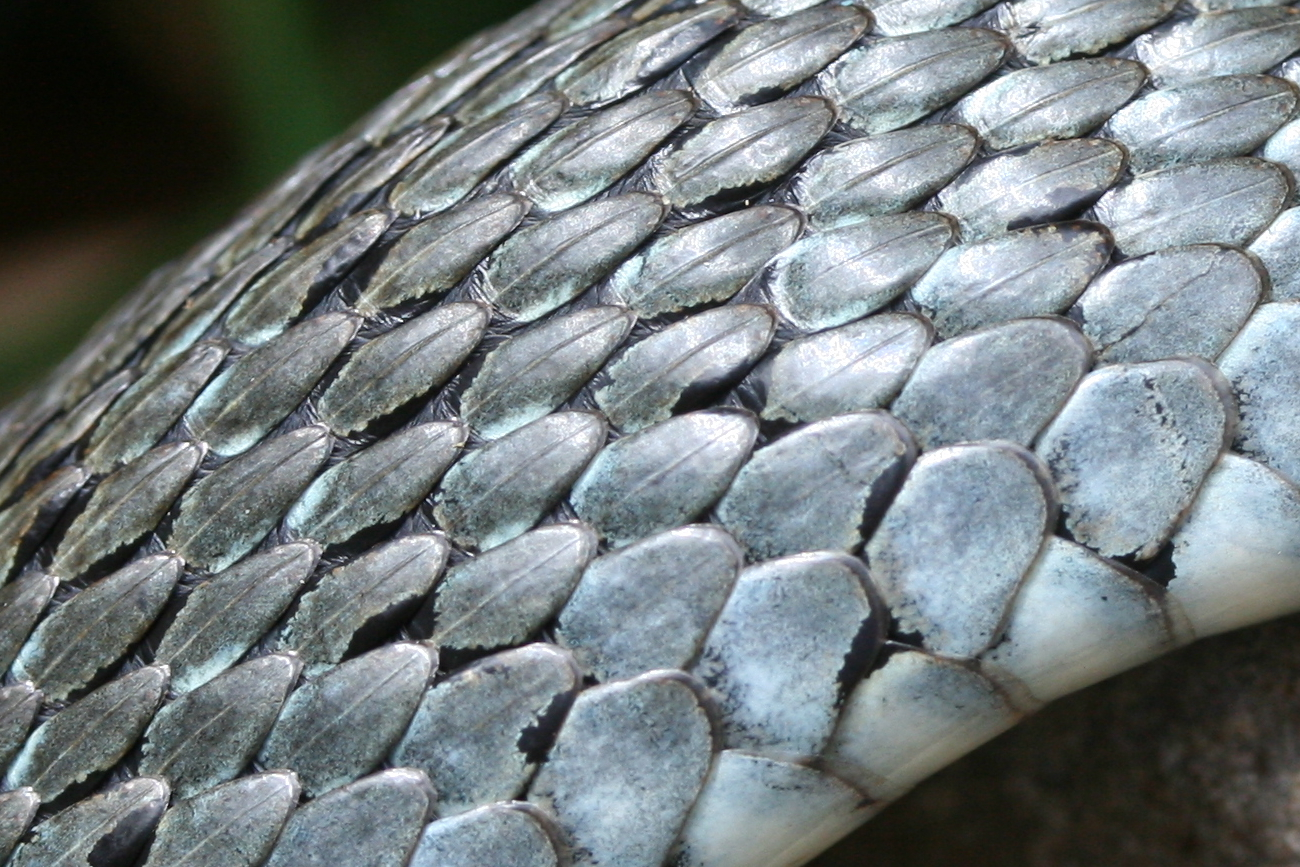 Scales of the European grass snake, ringed snake, water snake (Natrix natrix). Sideview of body with keeled scales on the back. Photograph taken in Bremerhaven Zoo, Germany.